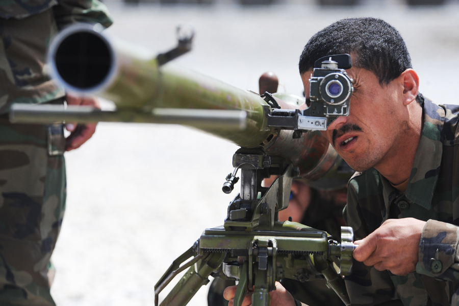 100510-F-5561D-010 Kabul - Afghan National Army (ANA) soldiers train on proper operations of artillery and mortar fire on Kabul Military Training Center (KMTC) May 8, 2010. KMTC is the training range for all ANA basic training along with advanced training for soldiers. (U.S. Air Force photo/ Senior Airman Matt Davis)